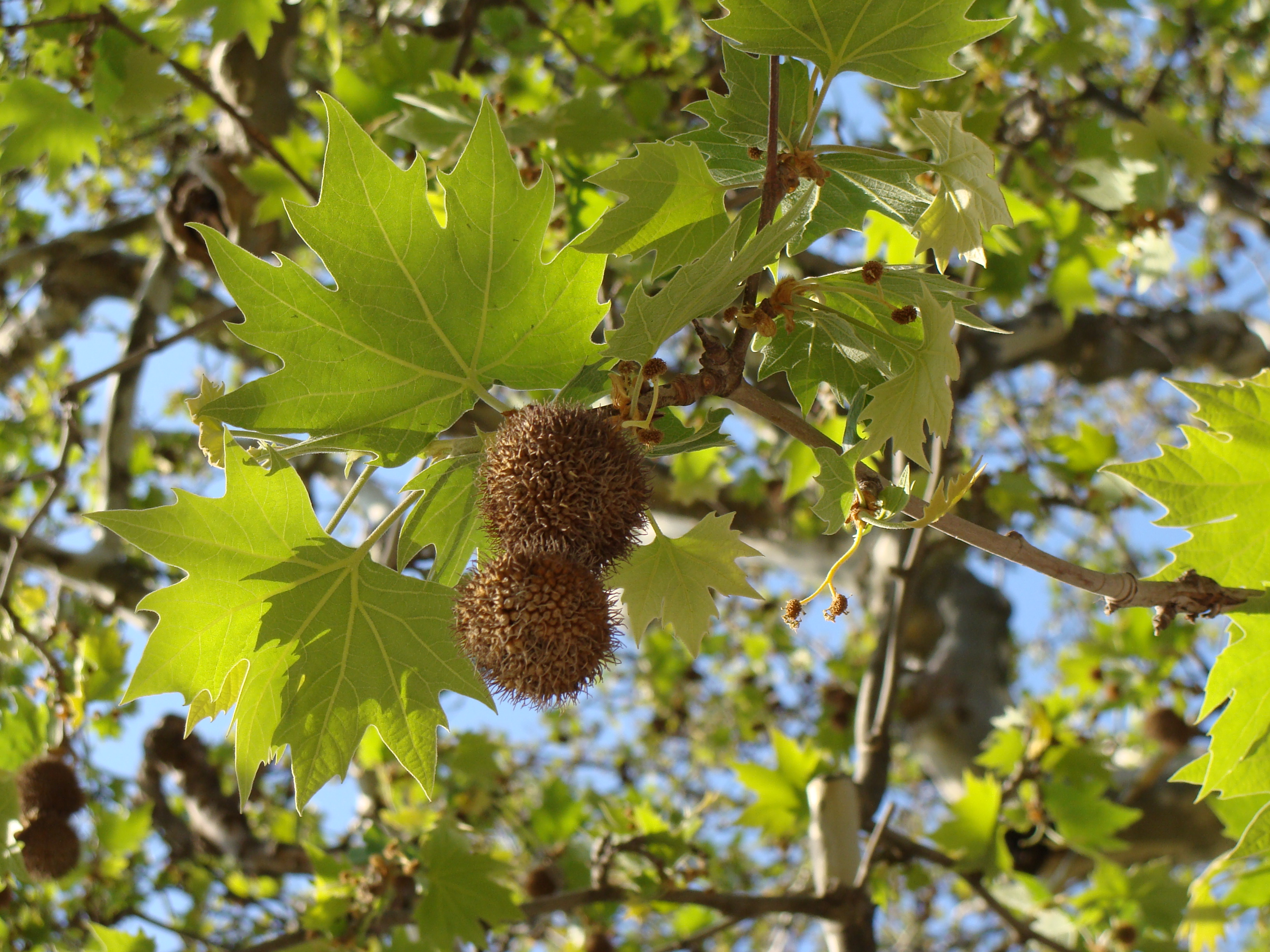 different views of an historical tree, Jardin des Plantes, Paris, platanus orientalis planted by Buffon in the Jardin des Plantes de Paris in 1785